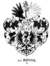 Coat of Arms Buldring-Bilderling copied from a book of Arvid Klingspor (1882)